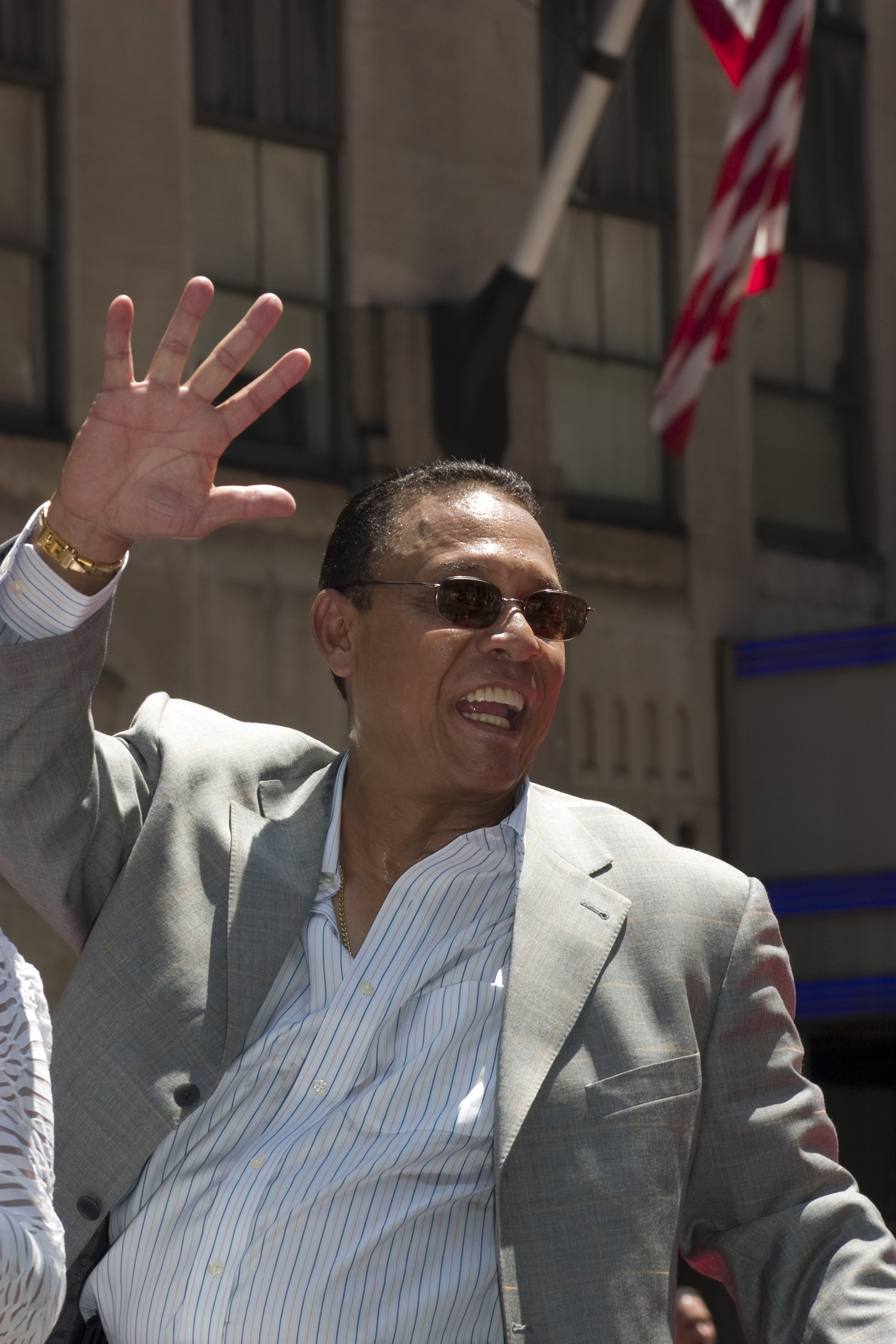 Hall of Fame baseball player Tony Perez at the 2008 All-Star Game Red Carpet Parade. © Rubenstein, photographer Martyna Borkowski